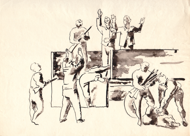 Sketch by Eugenio Gentili Tedeschi (EGT) showing the capture of German troops by Italian partisans in the Alps in 1944. A Jewish architect from Turin, originally, EGT was a member of the Italian partisans during WW2.